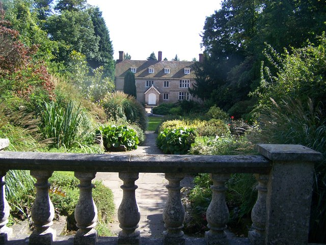 Great Comp House, Kent. 7-acre plantsman's garden around a 17th-century manor house. Formal terrace lawns, island beds, woodland and heather garden. Garden features include a temple 994692, tower and ruins. Now maintained by a trust.